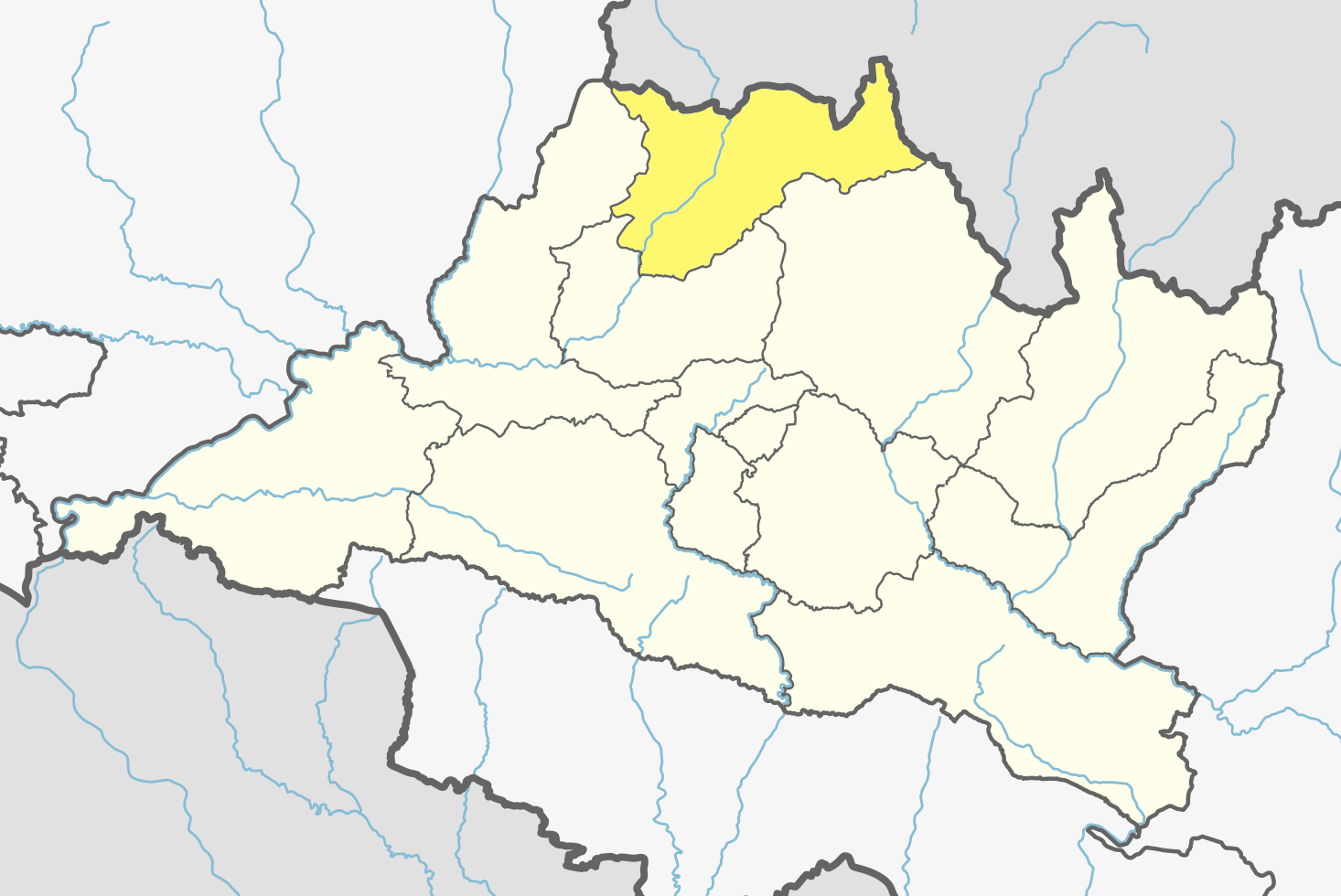 A district of Bagmati Pradesh